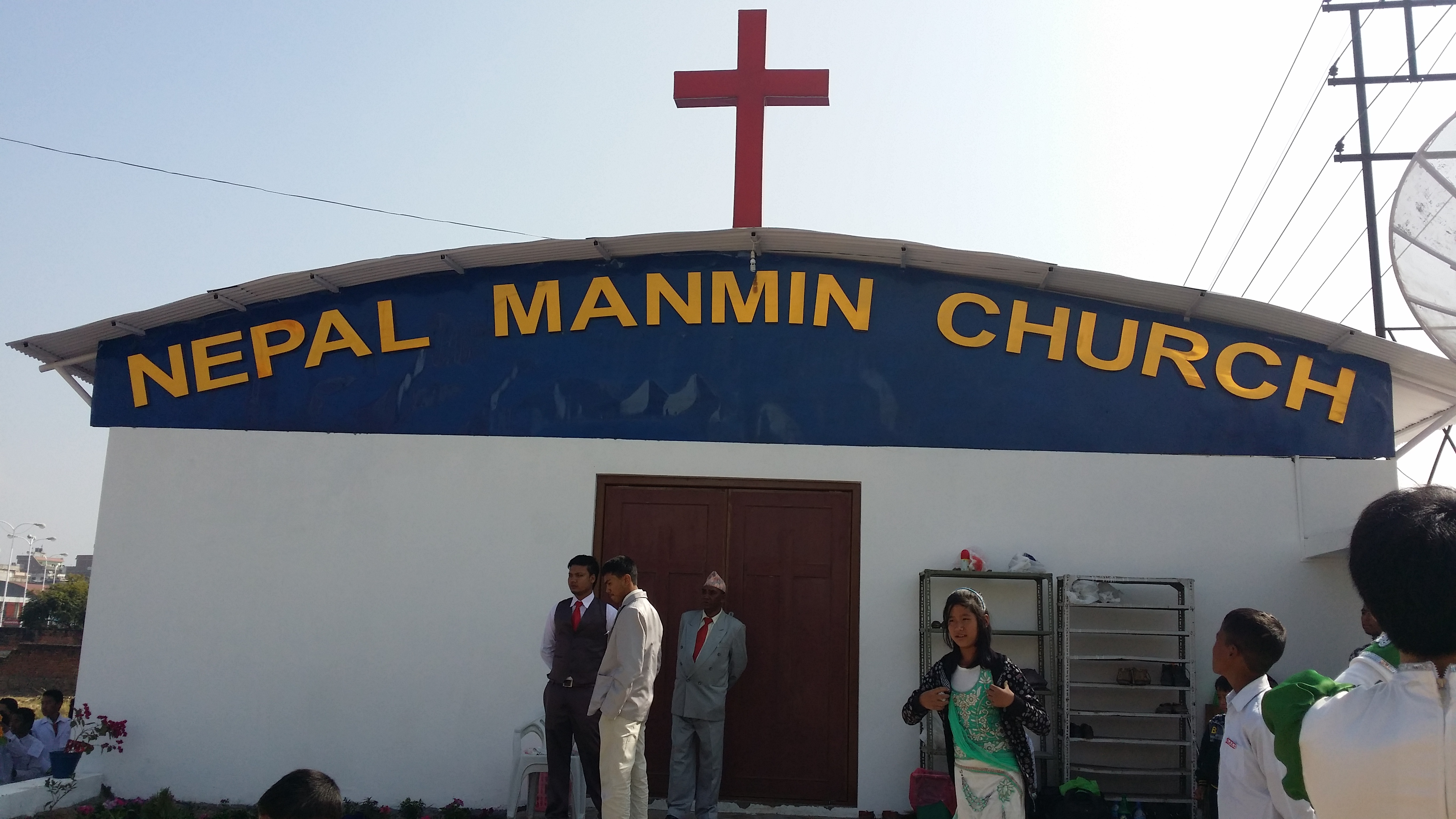 Nepal Manmin Church gate